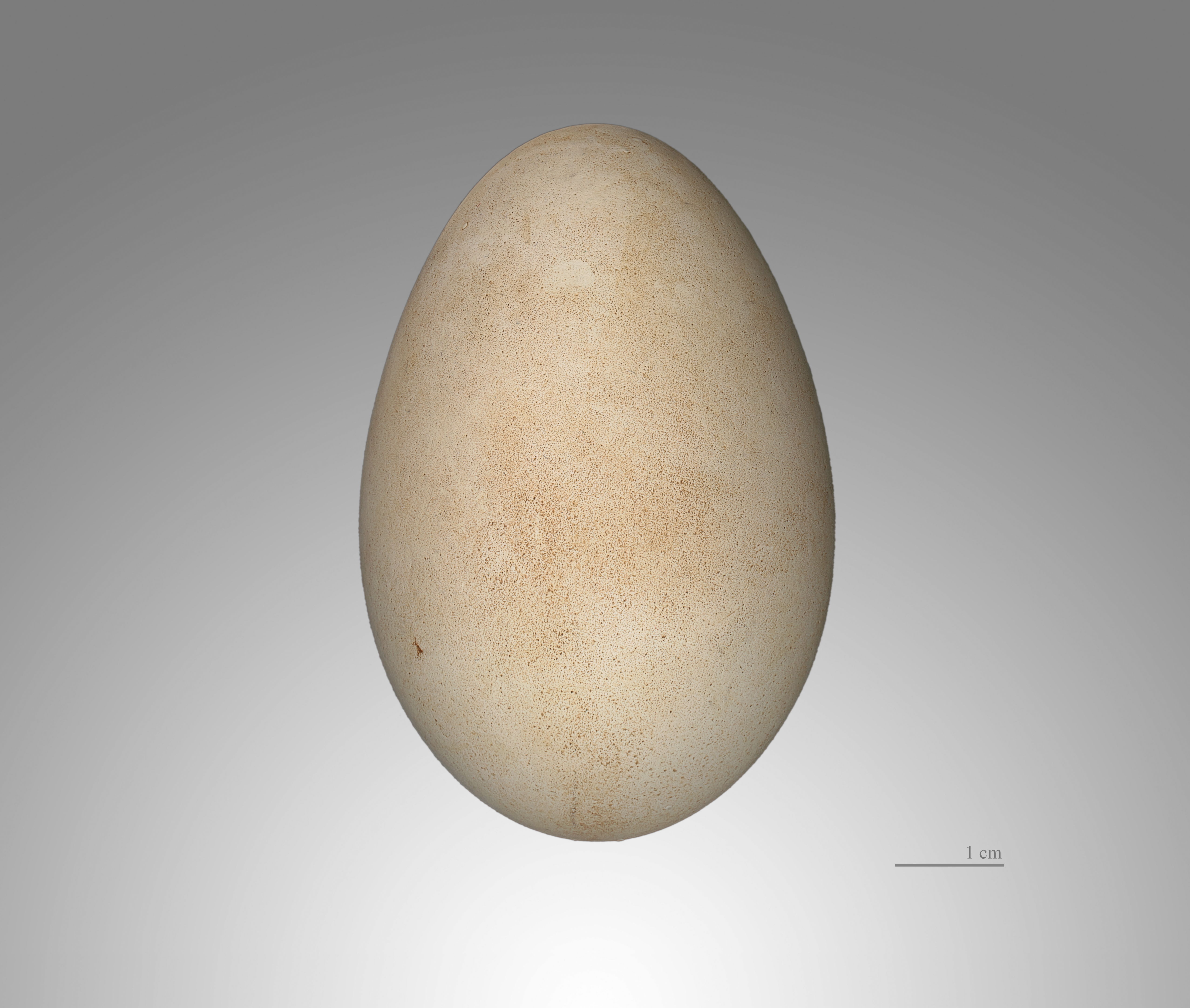 Egg of White Stork. Collection of René de Naurois /Jacques Perrin de Brichambaut. Locality : Region of Meknès, Morocco.